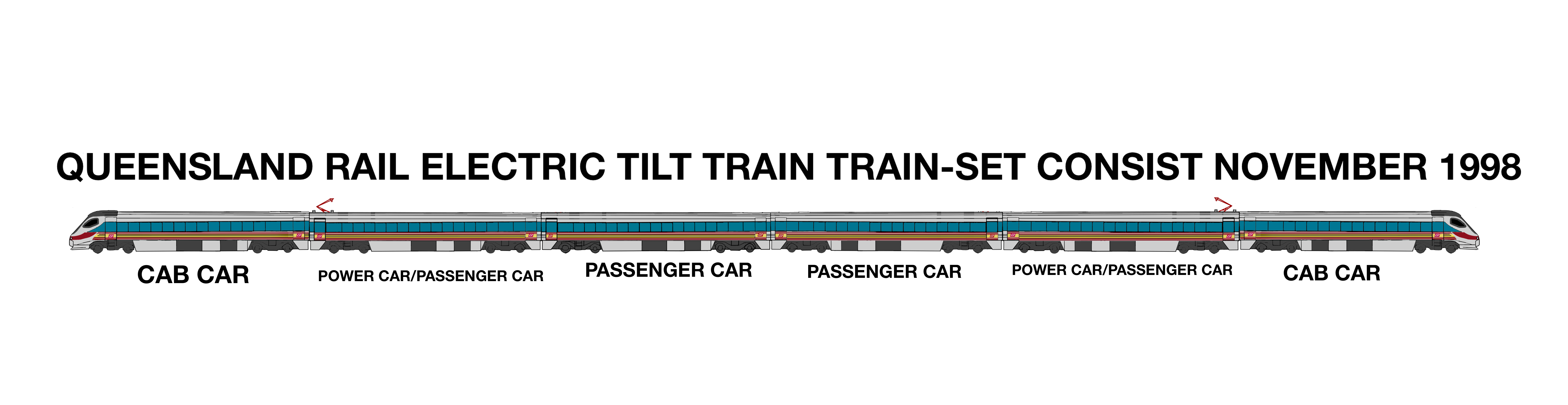 The Standard Consist used by the Electric Tilt Train From November 6 1998.